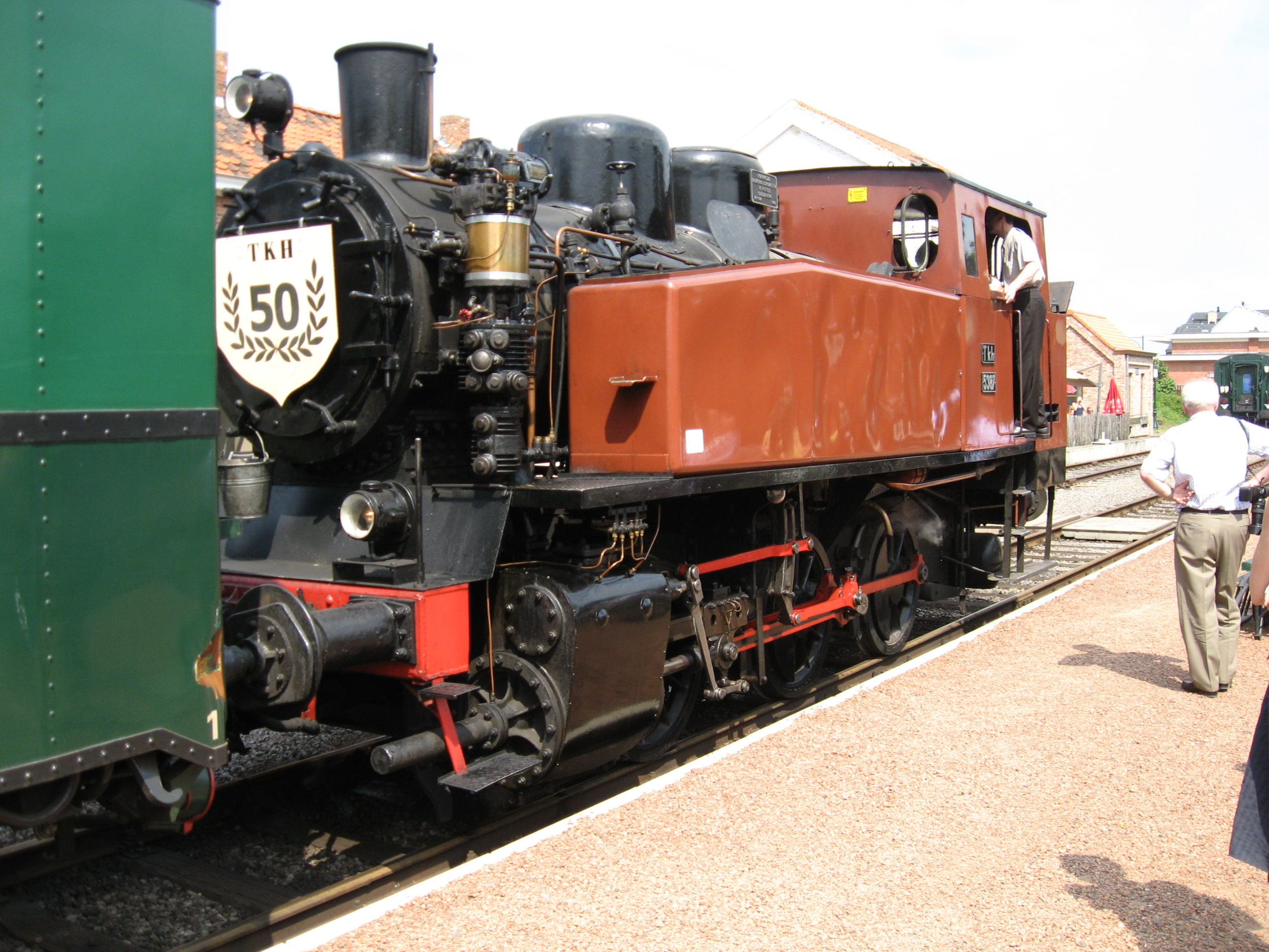 Steam engine 5387 in Maldegem